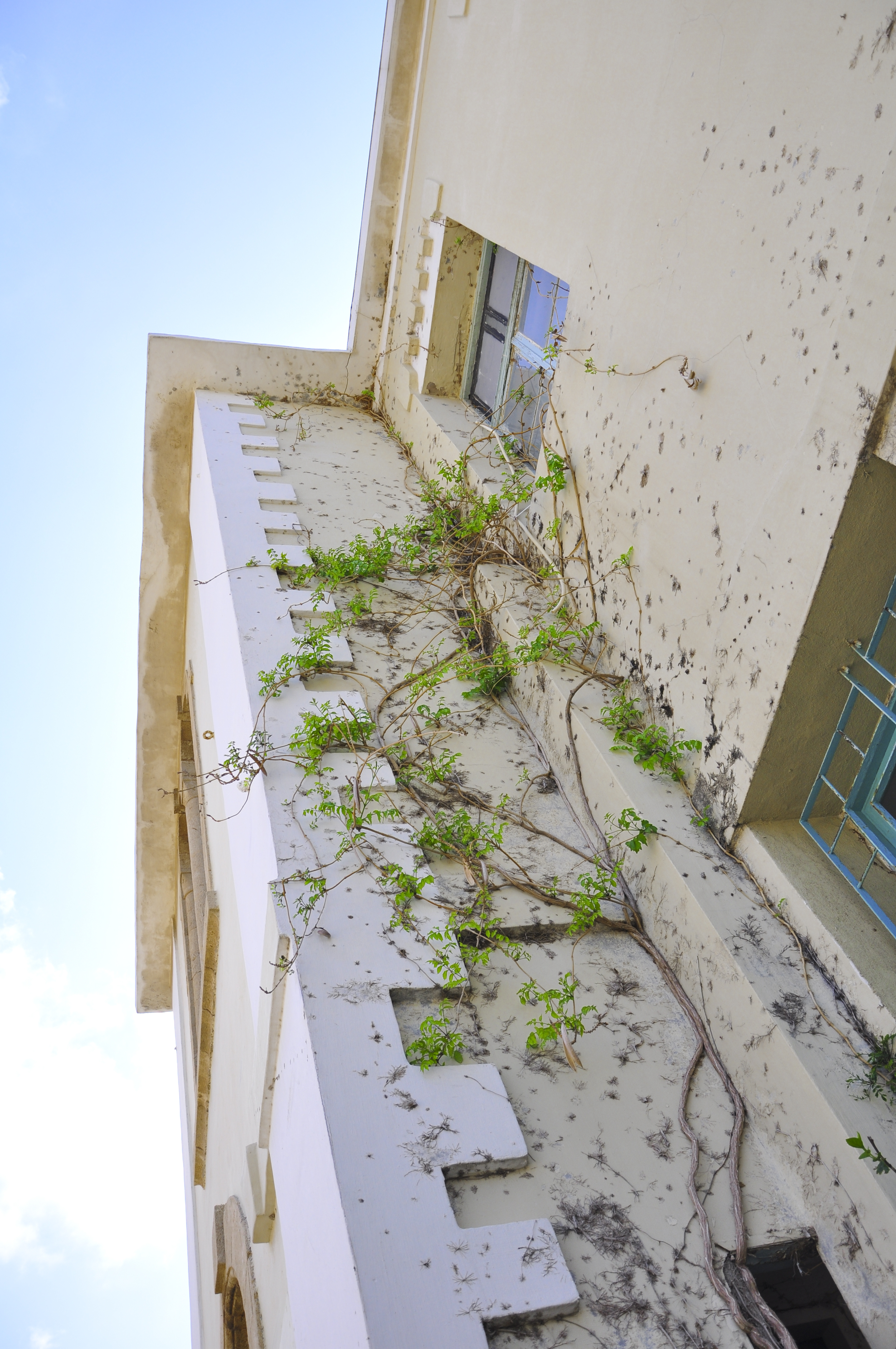 Climbing plant on the Suzanne Dellal culture center, Tel Aviv, Israel.